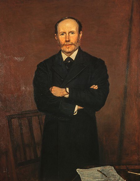 The portrait of Sir Thomas Sutherland, 1834 - 1922 by John Henry Lorimer, painted in 1882.